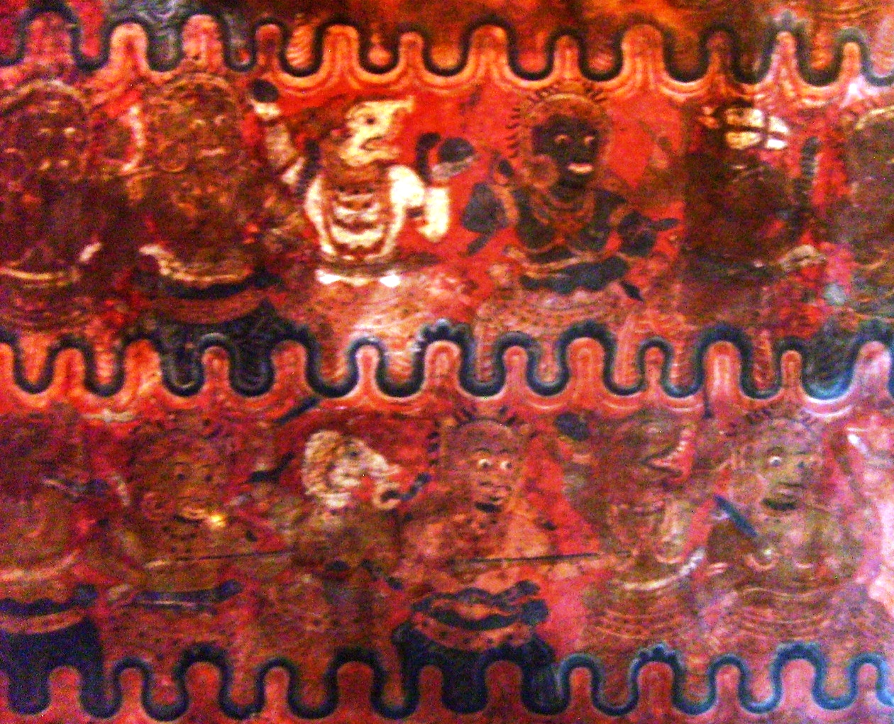 A painting in the Degaldoruwa temple depicting the forces of Mara.